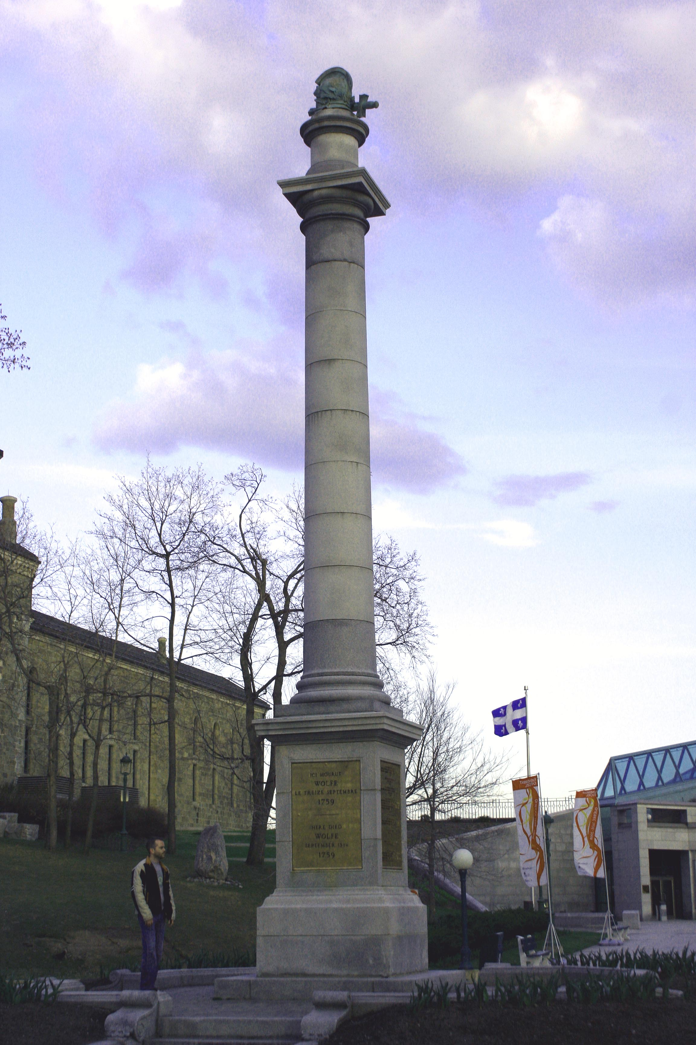 Memorial to General James Wolfe on the Plains of Abraham, Quebec City, QC